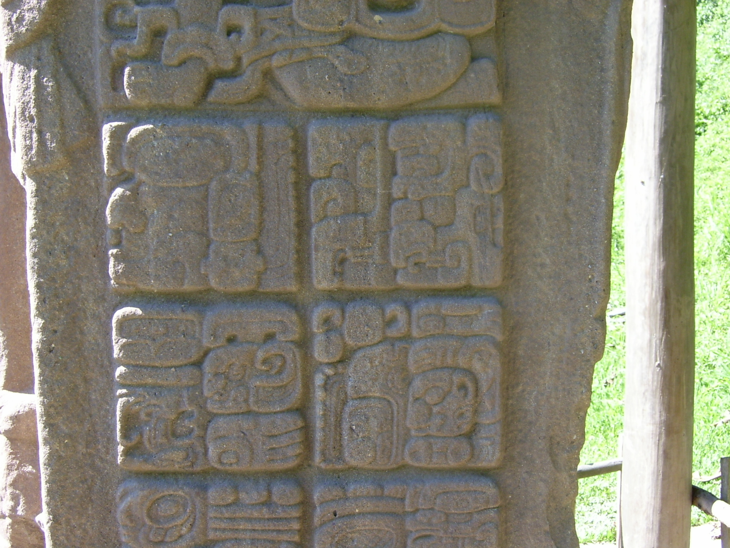 Detail (side view) of Stela D in Quiriguá, Guatemala, showing ancient Maya inscriptions. The stela was erected on February 17, 766.